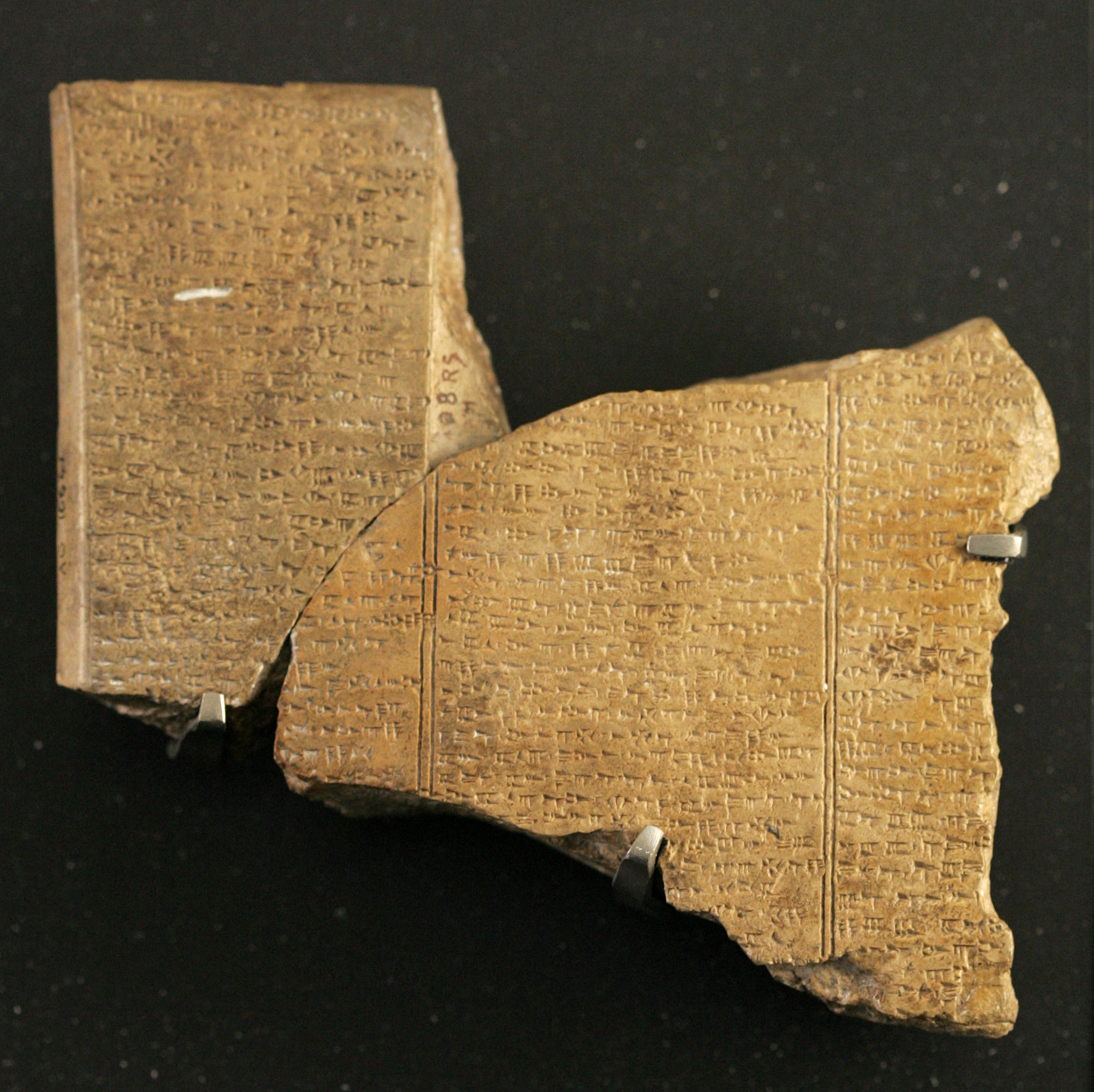 Artist Unknown artistDescription Ugaritic language, Cuneiform script Baal Epic. Ball and death. [1] 14th century BC, Display 12Collection Louvre Museum (Inventory)Native nameMusée du LouvreParent institutionÉtablissement public du musée du Louvre LocationParisCoordinates48° 51′ 37.42″ N, 2° 20′ 15.36″ E Established1793 Web page control : Q19675 VIAF: 257711507 ISNI: 0000 0001 2260 177X ULAN: 500125189 LCCN: n80020283 NLA: 35912436 WorldCat institution QS:P195,Q19675Current location Sully Rez-de-chaussée Levant : Syrie côtière, Ougarit et Byblos Salle BAccession number AO 16641, AO 16642 Credit line Found by C. Schaeffer in 1930-31Source/Photographer RamaOther versions Ugaritic language, Cuneiform script Baal Epic. Ball and death. [1] 14th century BC, Display 12